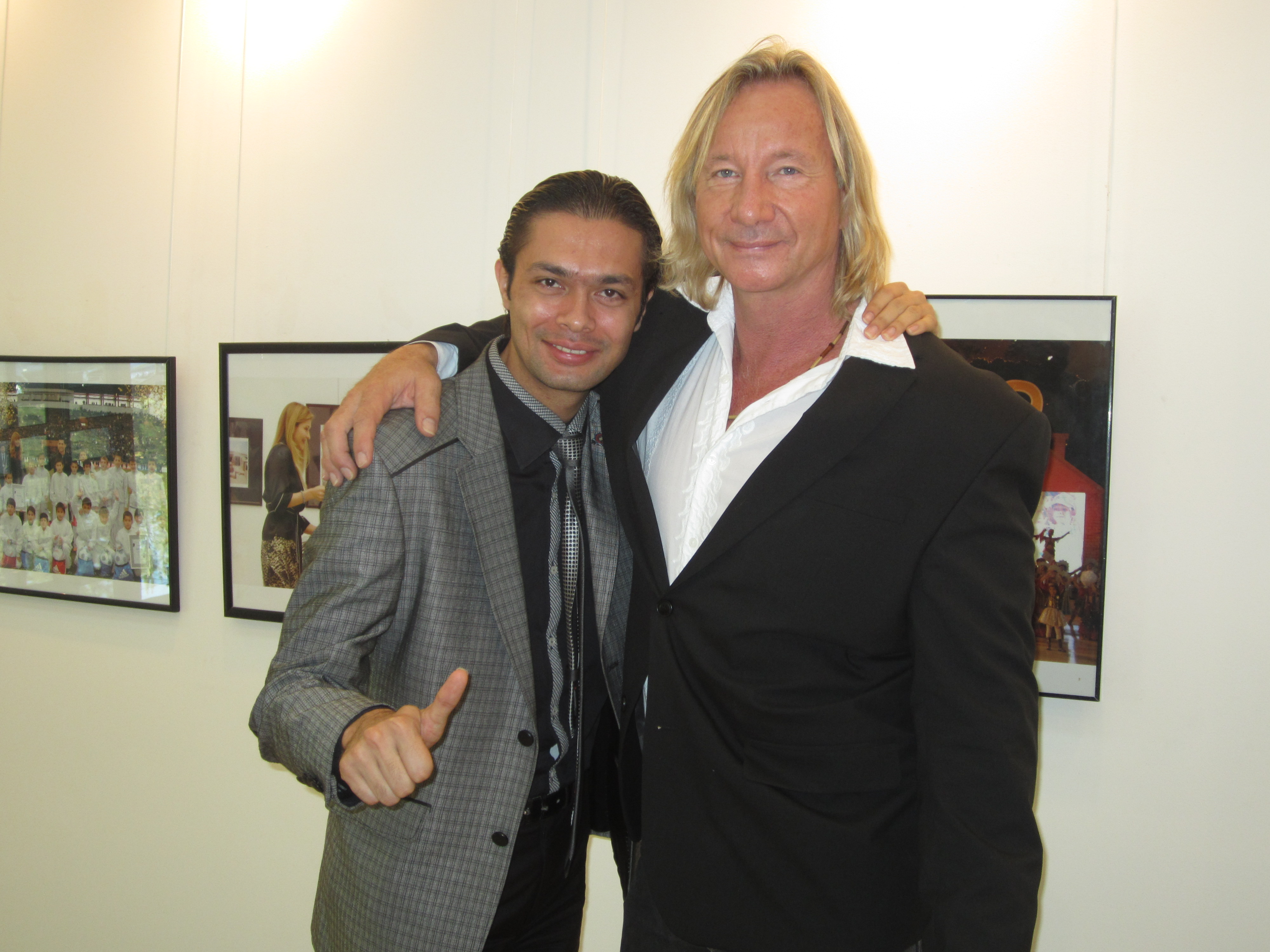 Otabek Mahkamov and Matthias Hues